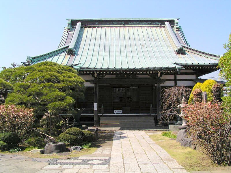 Kuhonji (temple) in Kamakura-city, Japan